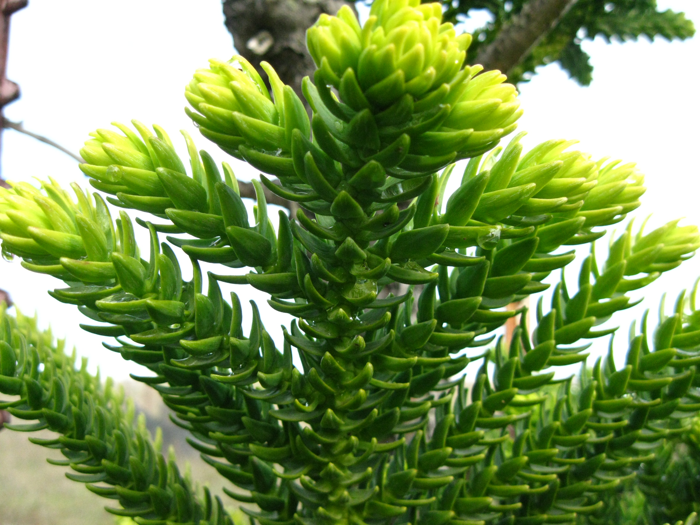 Closeup of Araucaria laubenfelsii